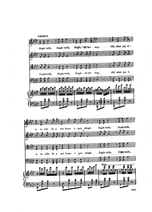 An original arrangement of "The One Horse Open Sleigh" at The Library of Congress.